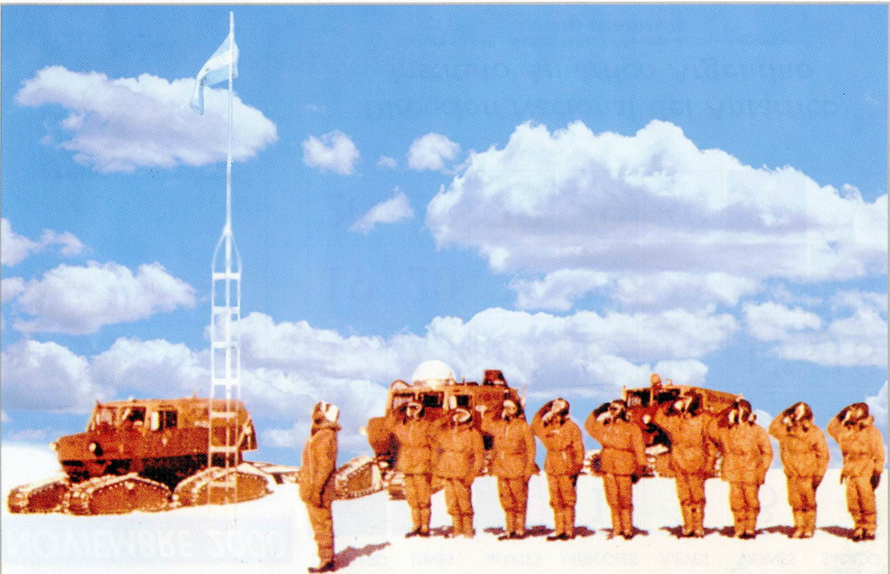 Operación 90 (Operation NINETY) was the first Argentine ground expedition to the South Pole, conducted in 1965, by 10 soldiers of the Argentine Army. This picture shows the moment when the soldiers salute the flag of Argentina.